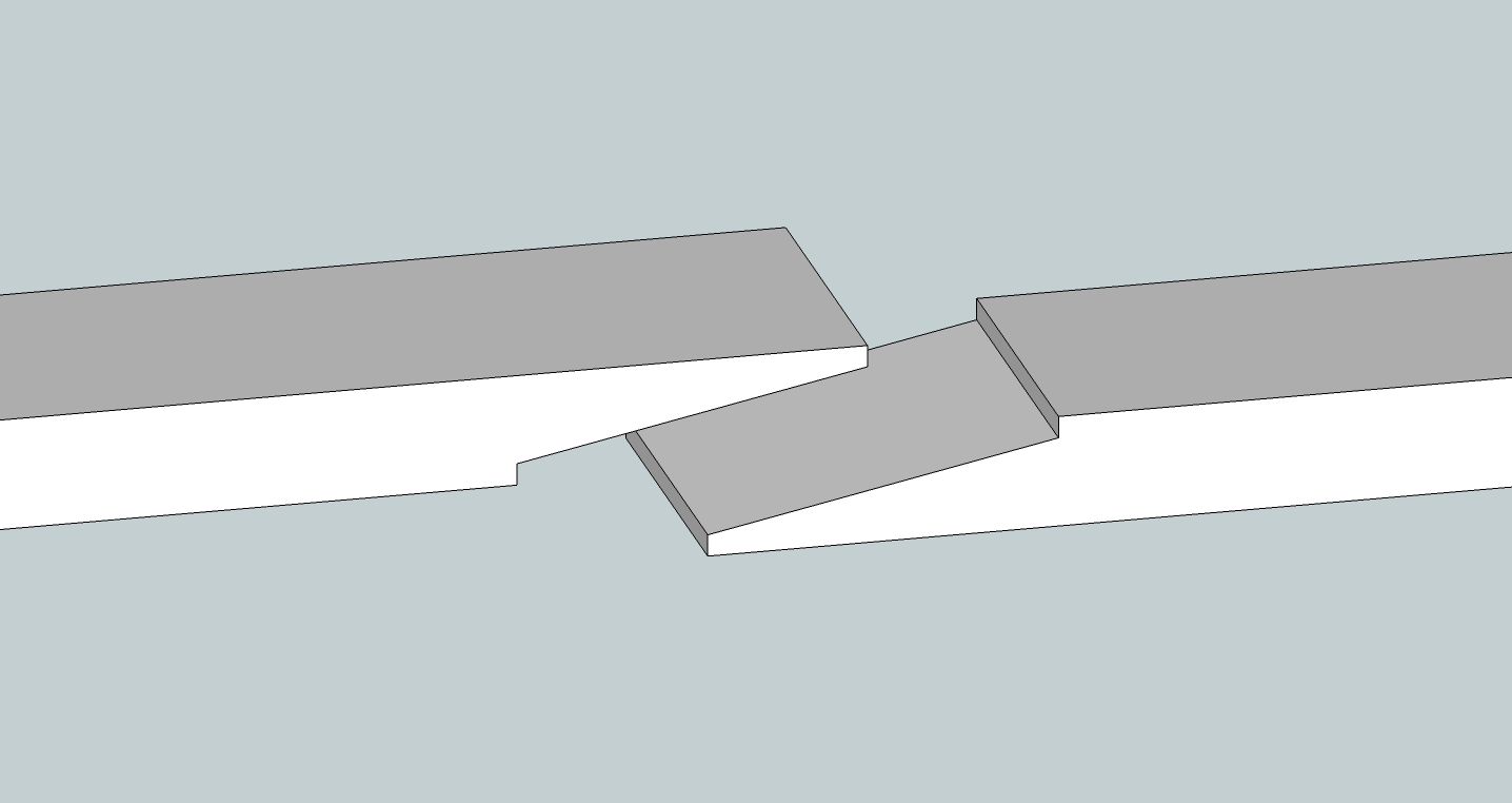 A scarf joint with a minor butt joint component. This differs from a feathered scarf joint that ends in an extreme sharp tip. This modification to the feathered scarf joint increases the joints strength with respect to compression along the long axis of the wood.